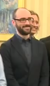 Michael Stevens at the White House meeting with YouTube celebrities concerning , 2014 (screenshot from YouTube video)